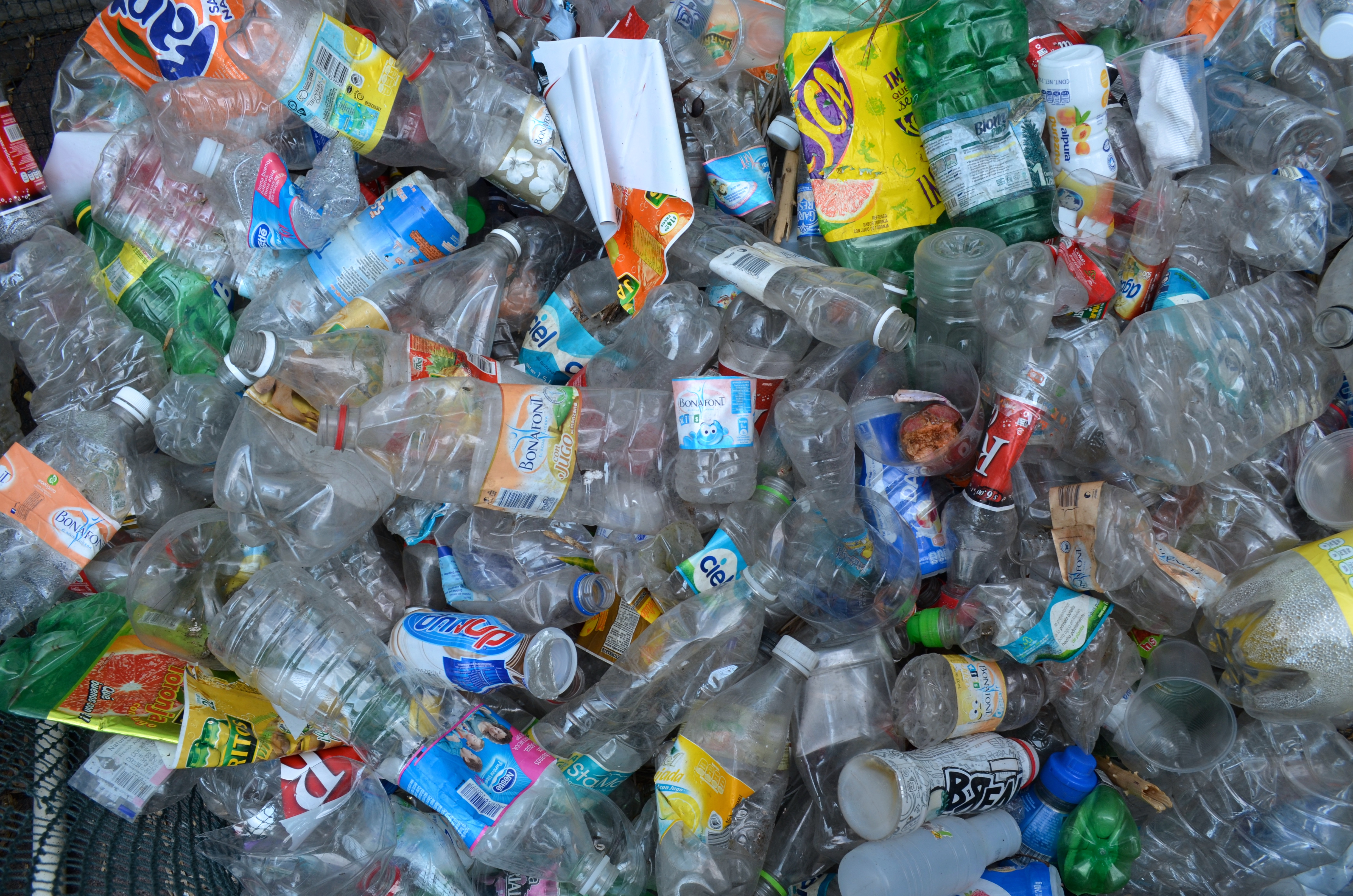 bundle of different plastic bottles gathered for recycling seen at "Centro de Educación Ambiental Acuexcomatl" de Xochimilco, Ciudad de Mexico, Mexico City